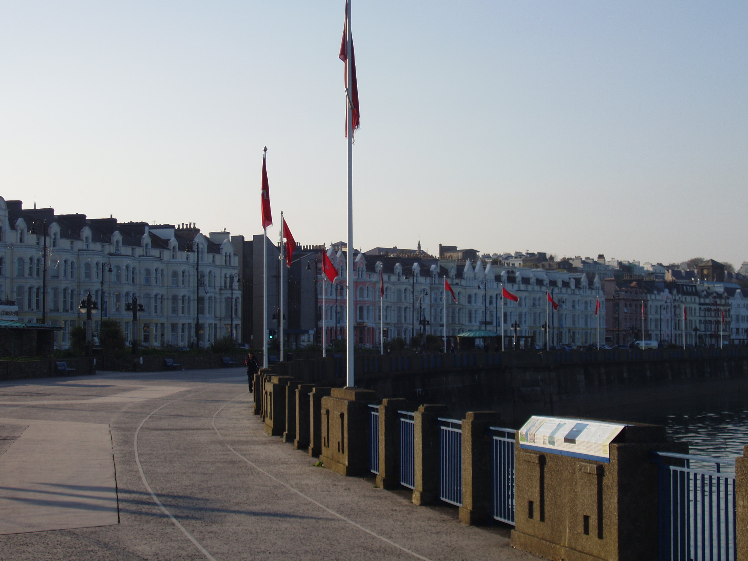 On the southern end of the Loch Promenade, camera pointed north. The flagpoles are adorned with the Manx flag. The Manx National Heritage sign installed on the right (foreground) describes what can be seen from this point along the Douglas Trail: the Tower of Refuge, the Loch Promenade and Sunken Gardens, the Wreck of the St. George, the Jubilee Clock, and the David "Dawsey" Kewley Drinking Fountain.